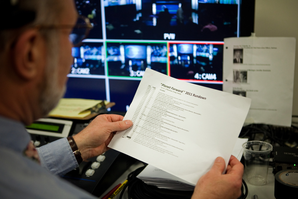 The Planet Forward team prepares for its 2011 PBS special.